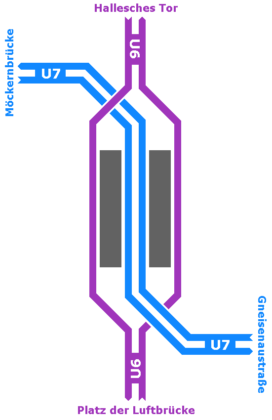 Scheme of the tracks of the Berlin U-Bahn station Mehringdamm (U6/U7)